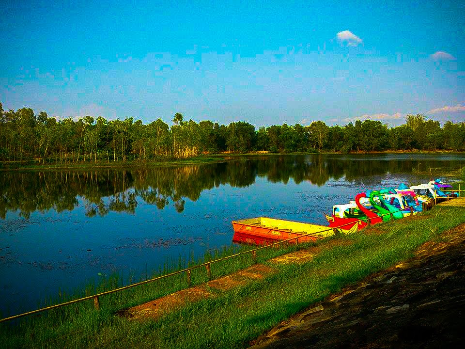 Huai Kok Park.